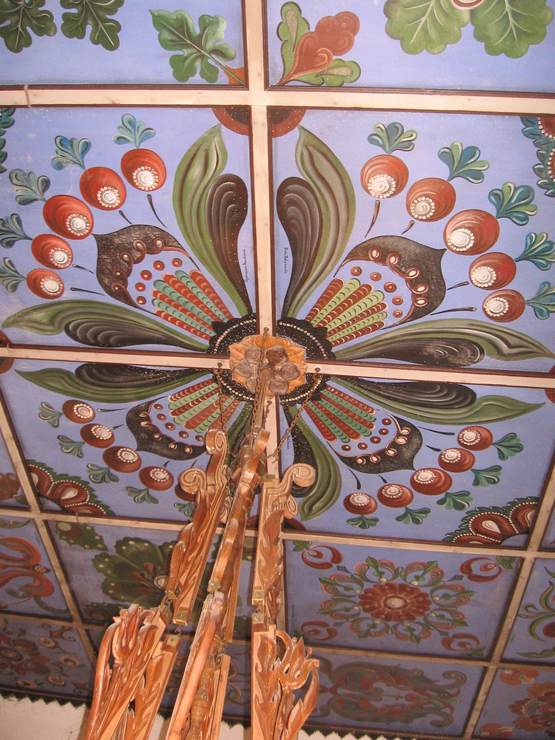 Covasna County ,Calnic, Unitarian church, Flowery borded, 17th century